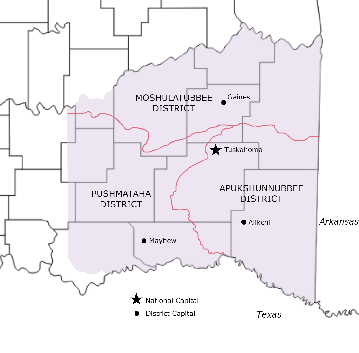 Former districts and capitals of Choctaw Nation, Indian Territory, that existed from 1834-1857, shown with present-day Oklahoma counties.